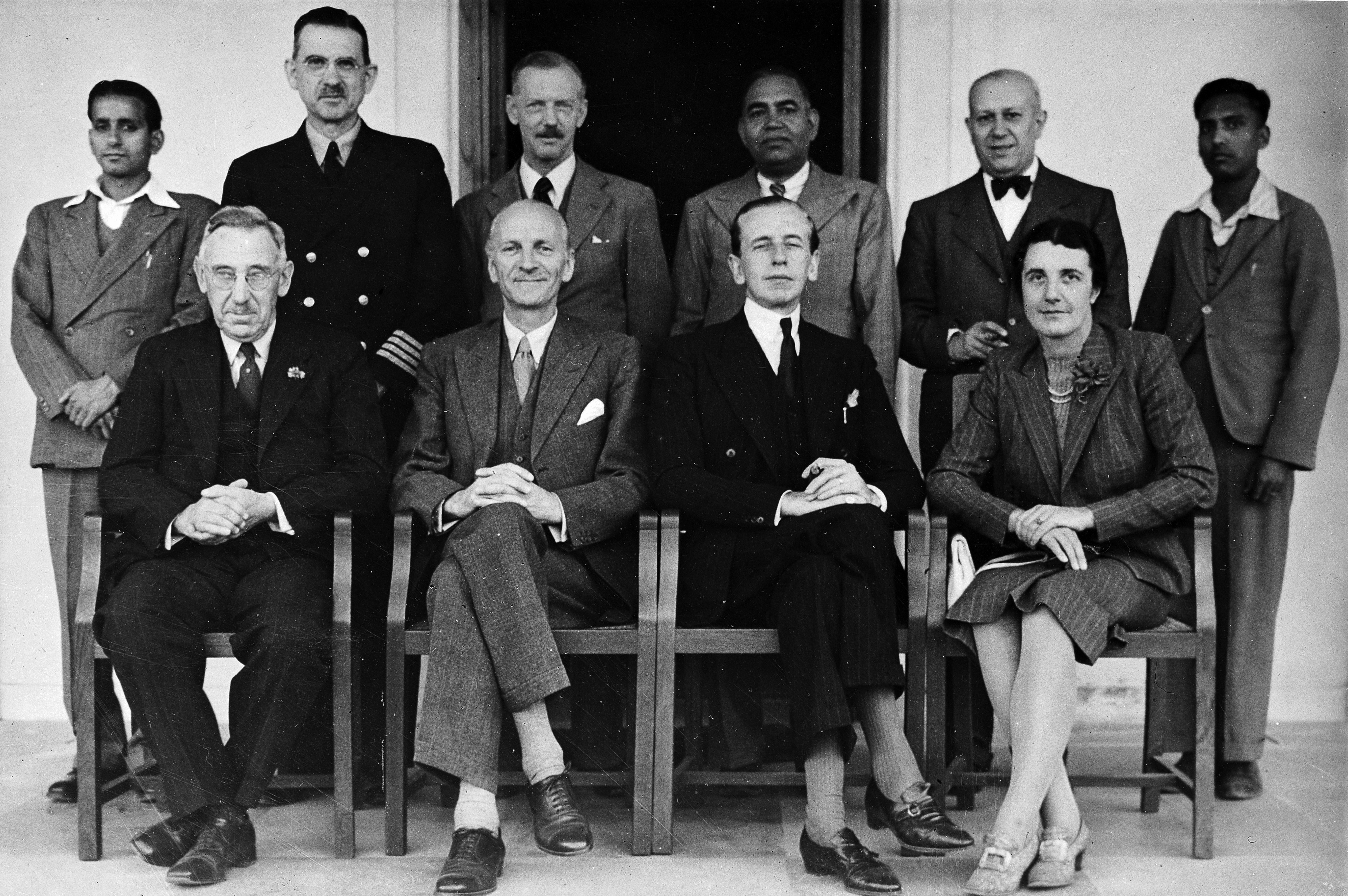 The Medical Mission of Experts on their visit to India to advise the Health Survey and Development Commitee of the Government of India. Photograph on occassion of visit to Sh. Janki Devi Jamiat Singh Free Maternity Hospital at Lahore. Those present include Henry E. Sigerist (standing, second from right), Col, Bozman.